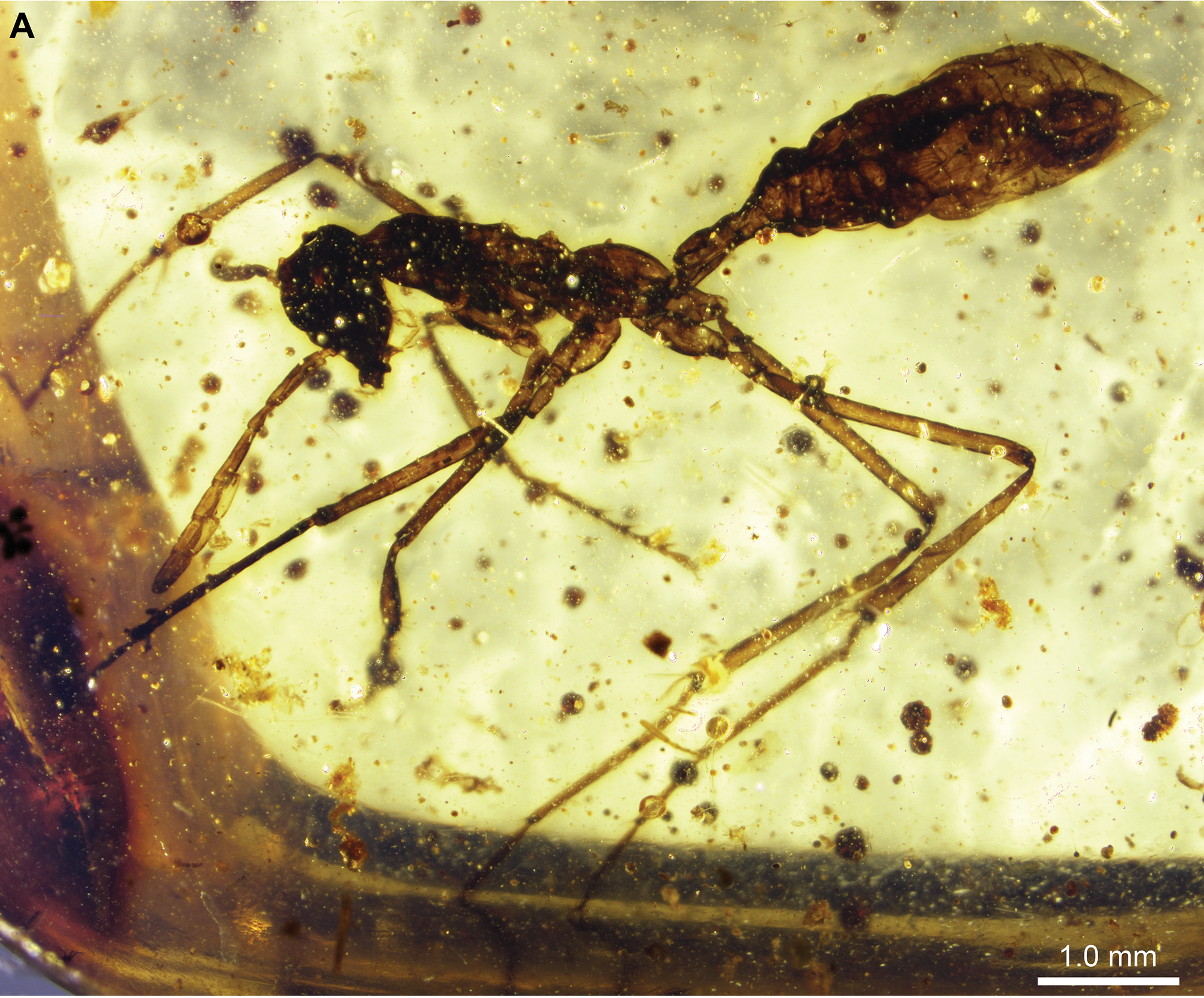 Figure 9. Gerontoformica tendir (syn Sphecomyrmodes tendir) holotype JZC Bu303A photomicrographs. A. Lateral view of entire specimen, other views not possible due to severe cuticle darkening.